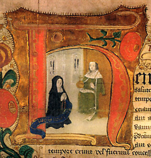 Agness Mellers as she appears in the founding doc for Nottingham High School